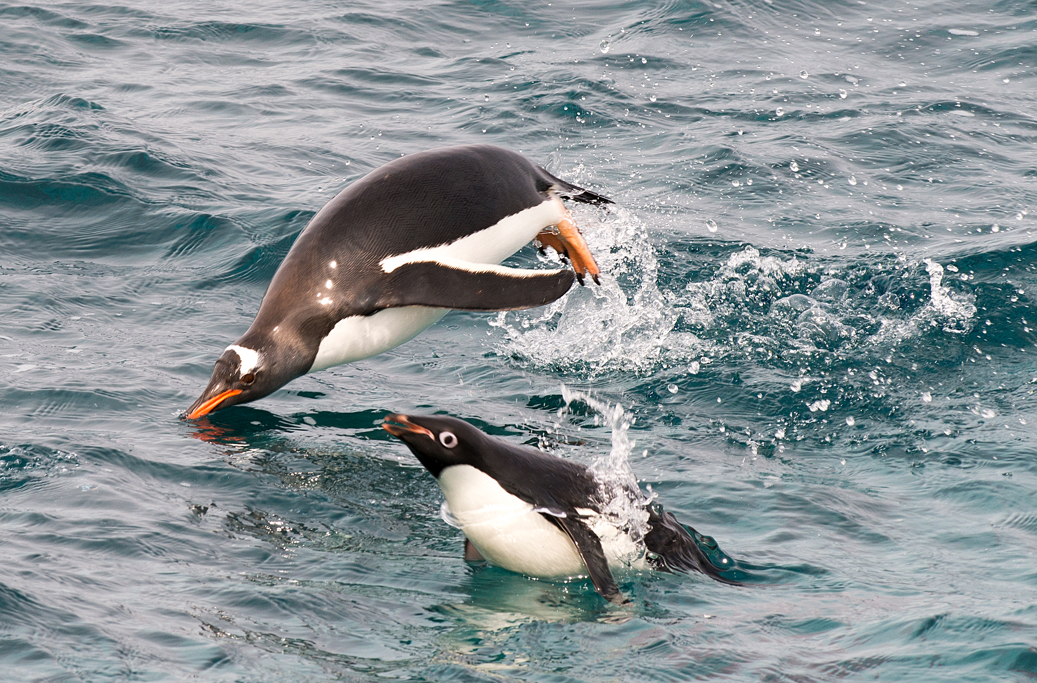 Antarctica 2013: Journey to the Crystal Desert